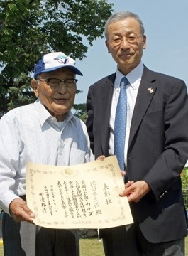 Kunihiko Tanabe, Consul-General in Calgary, awarded a certificate of commendation to Chūji Hiruki, Professor Emeritus of the University of Alberta, at the Natsu Matsuri of Edmonton Japanese Community Association in Edmonton City, Alberta Province on July 8, 2017.